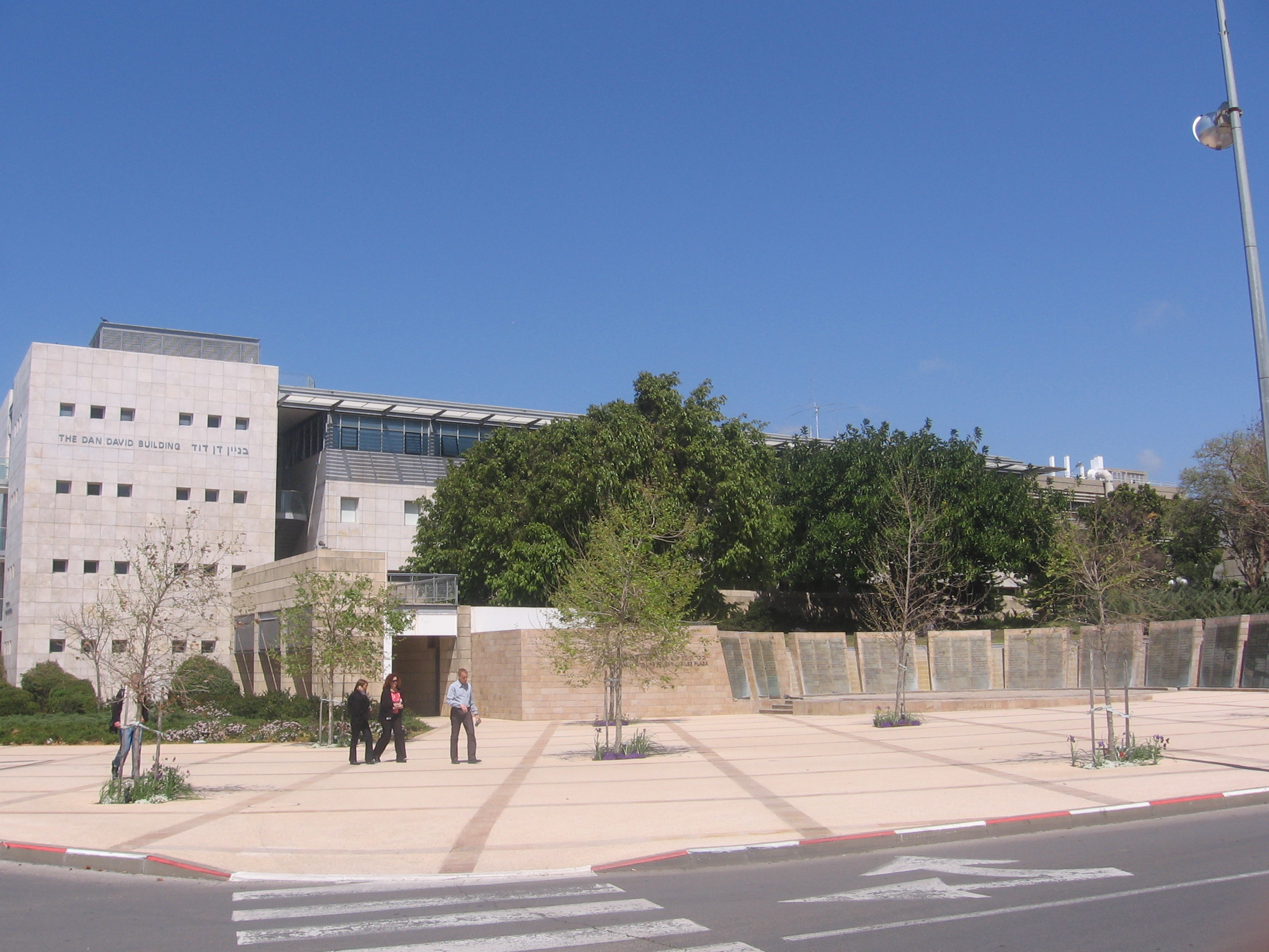 David building and the Jubilee plaza in Tel Aviv University (TAU).